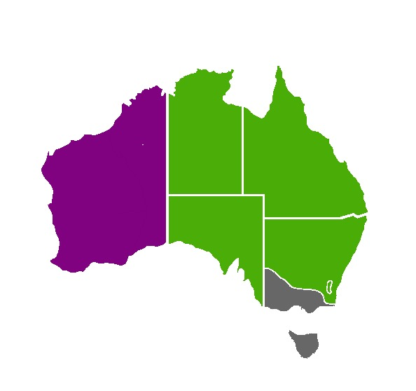 Map of Australia, showing which states/territories are participating in a container deposit scheme.